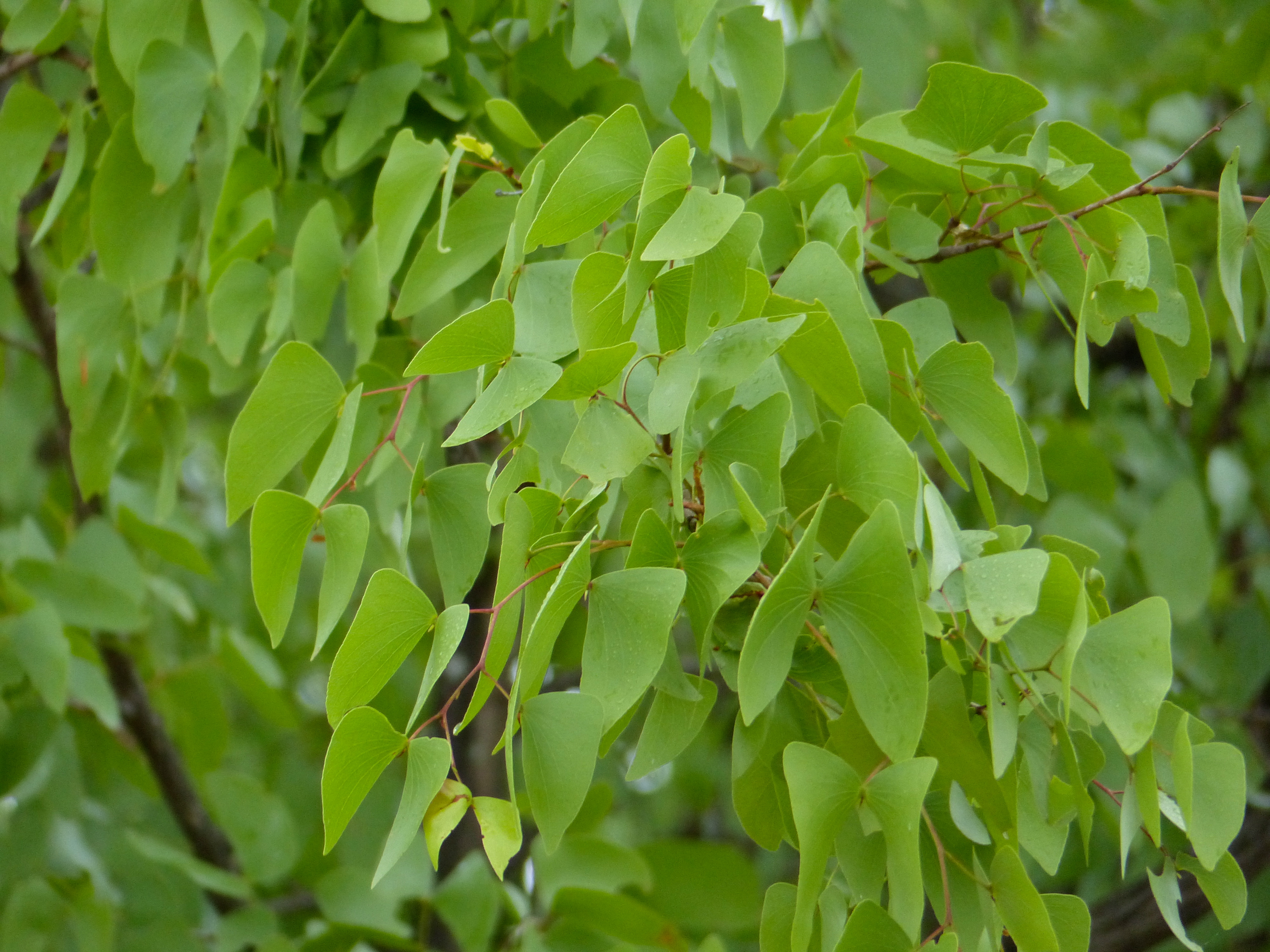 S95 Road North of Letaba, Kruger NP, SOUTH AFRICA